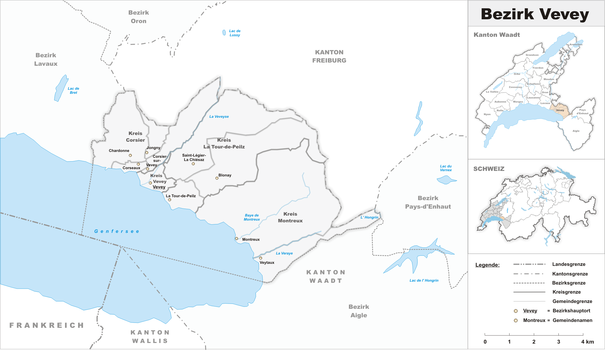 Municipalities in the district of Vevey